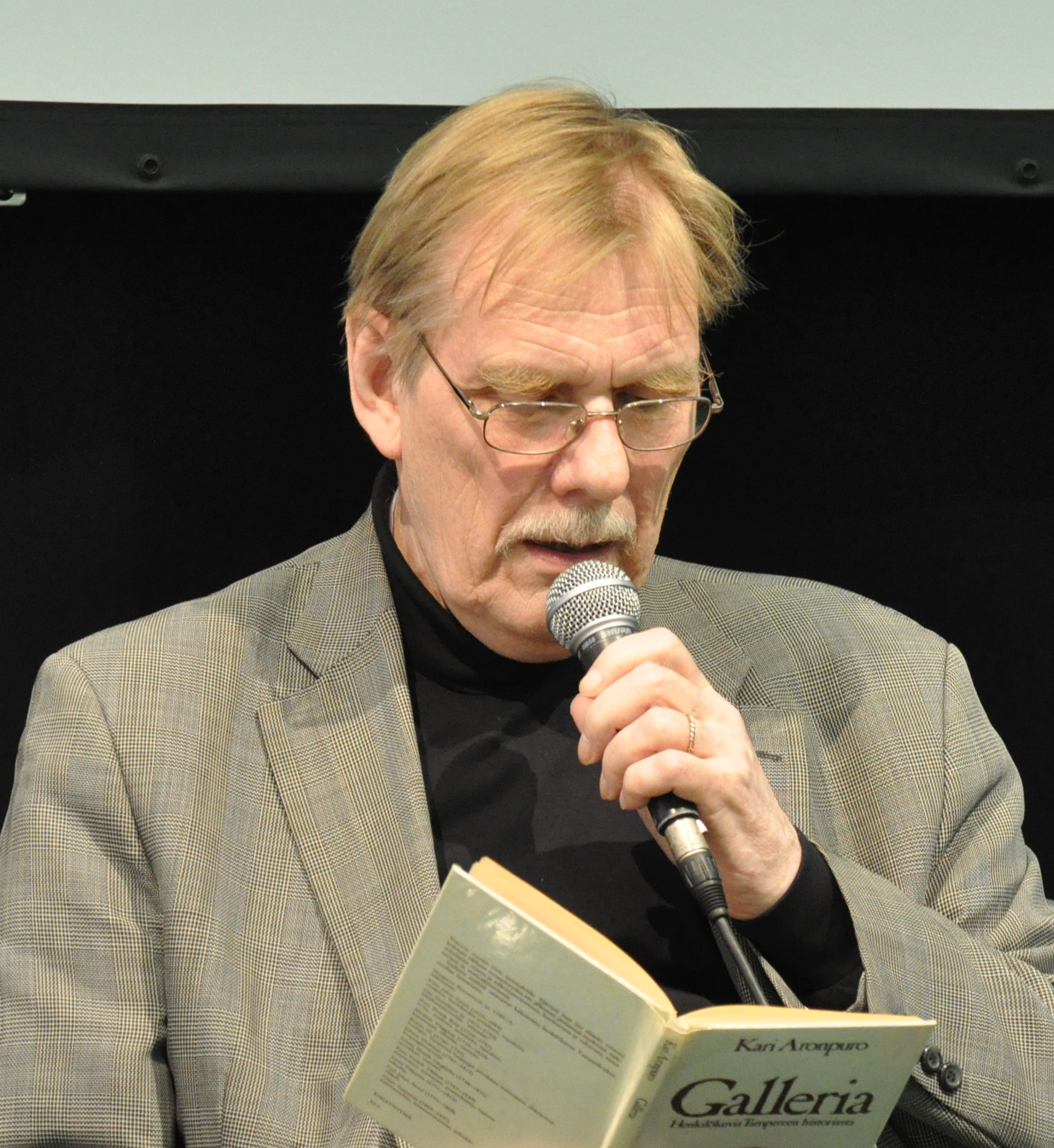 Finnish poet Kari Aronpuro reading poems at Turku Book Fair, 2011.